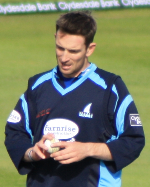 James Kirtley preparing to bowl for Sussex in a CB40 match against Somerset at the County Ground, Taunton.